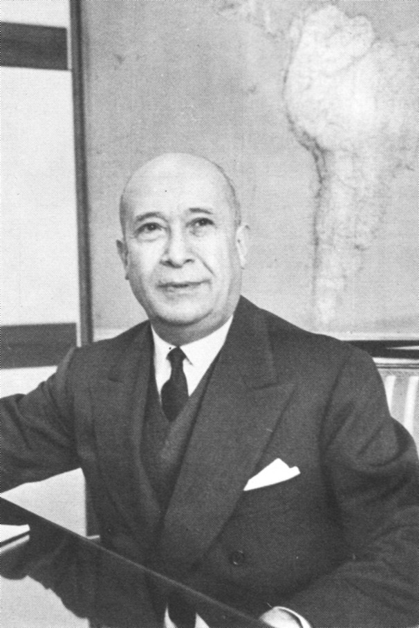 Prof. Piero Sacerdoti in his office in RAS